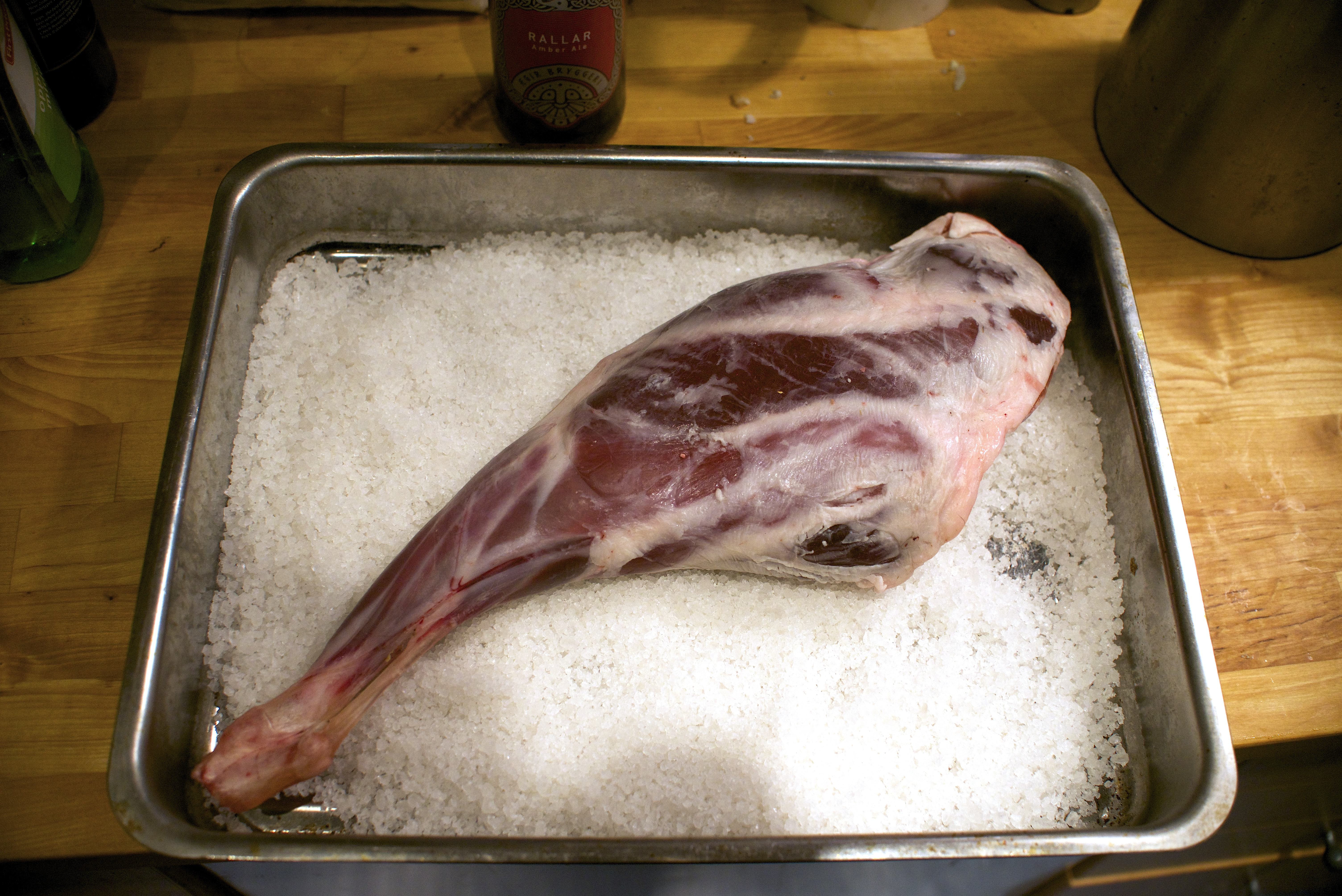 A leg of Norwegian feral sheep (villsau, or "wild sheep") prepared for dry salting. The leg will be totally covered with salt and stored at a cool place for 2-5 days, depending on weight. Afterwards, the leg is air dried and matured for 60-90 days.